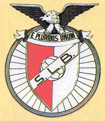 Logo of portuguese football club Sport Lisboa e Benfica in 1908, result of union between File:Logo Grupo Sport Lisboa (1904).jpg and File:Logo Grupo Sport Benfica (1906).jpg